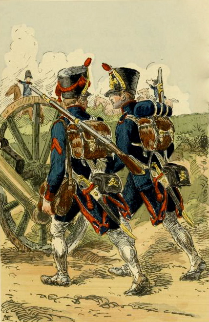 French foot artillery on campaign in 1809.